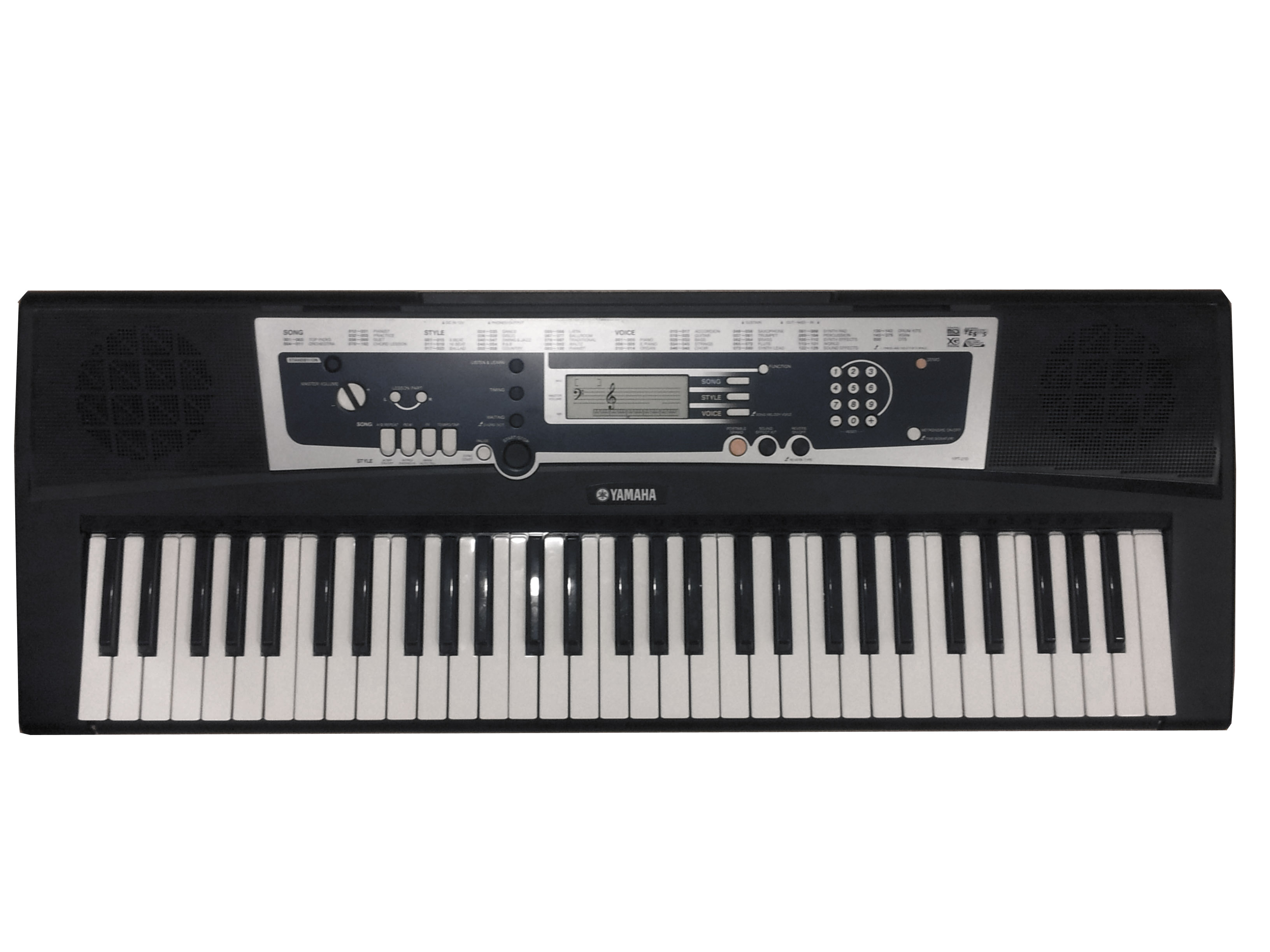 Yamaha YPT-210 Keyboard